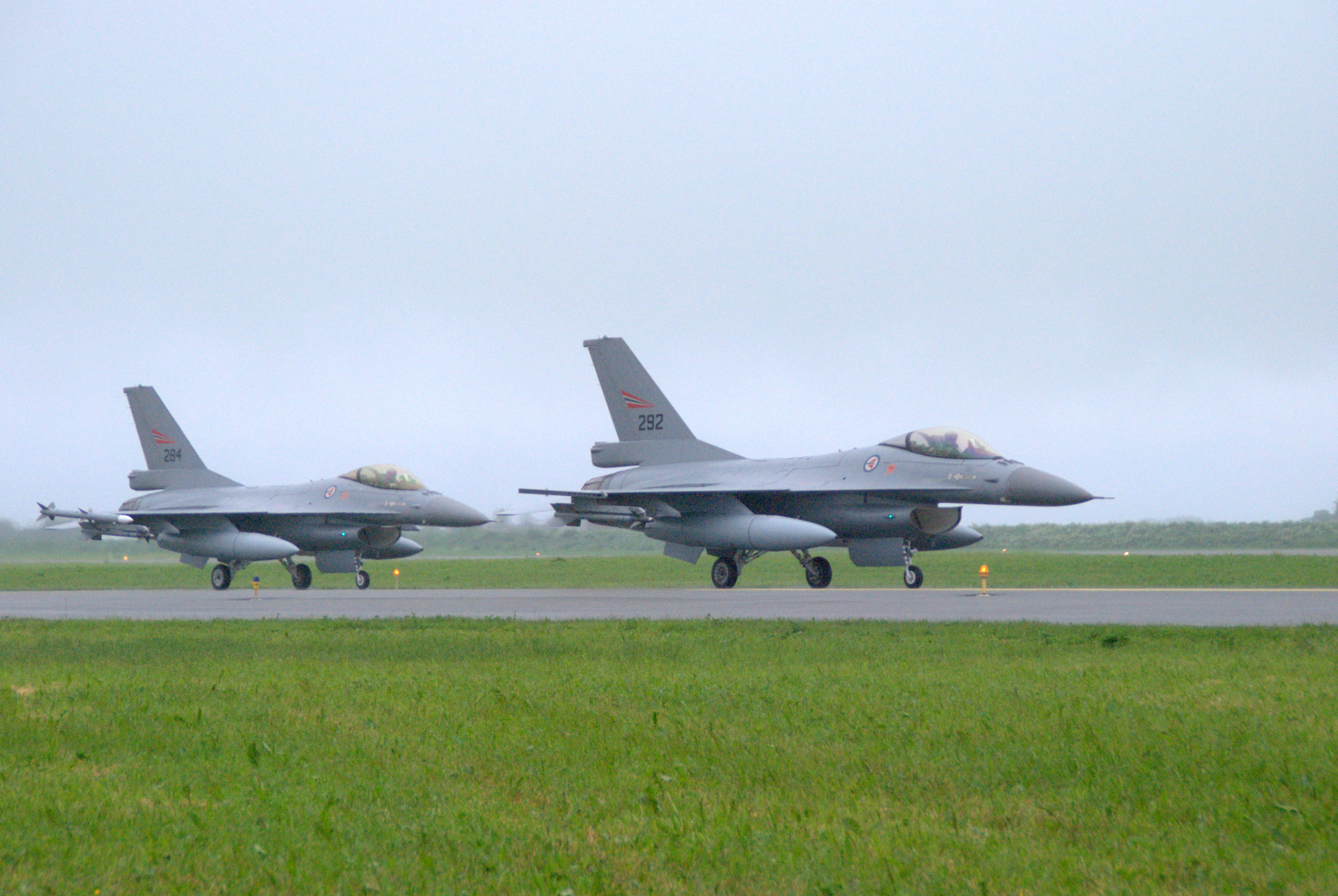 Two RNoAF F-16 Fighting Falcon at Ørland hovedflystasjon during NATO Tiger Meet 2013